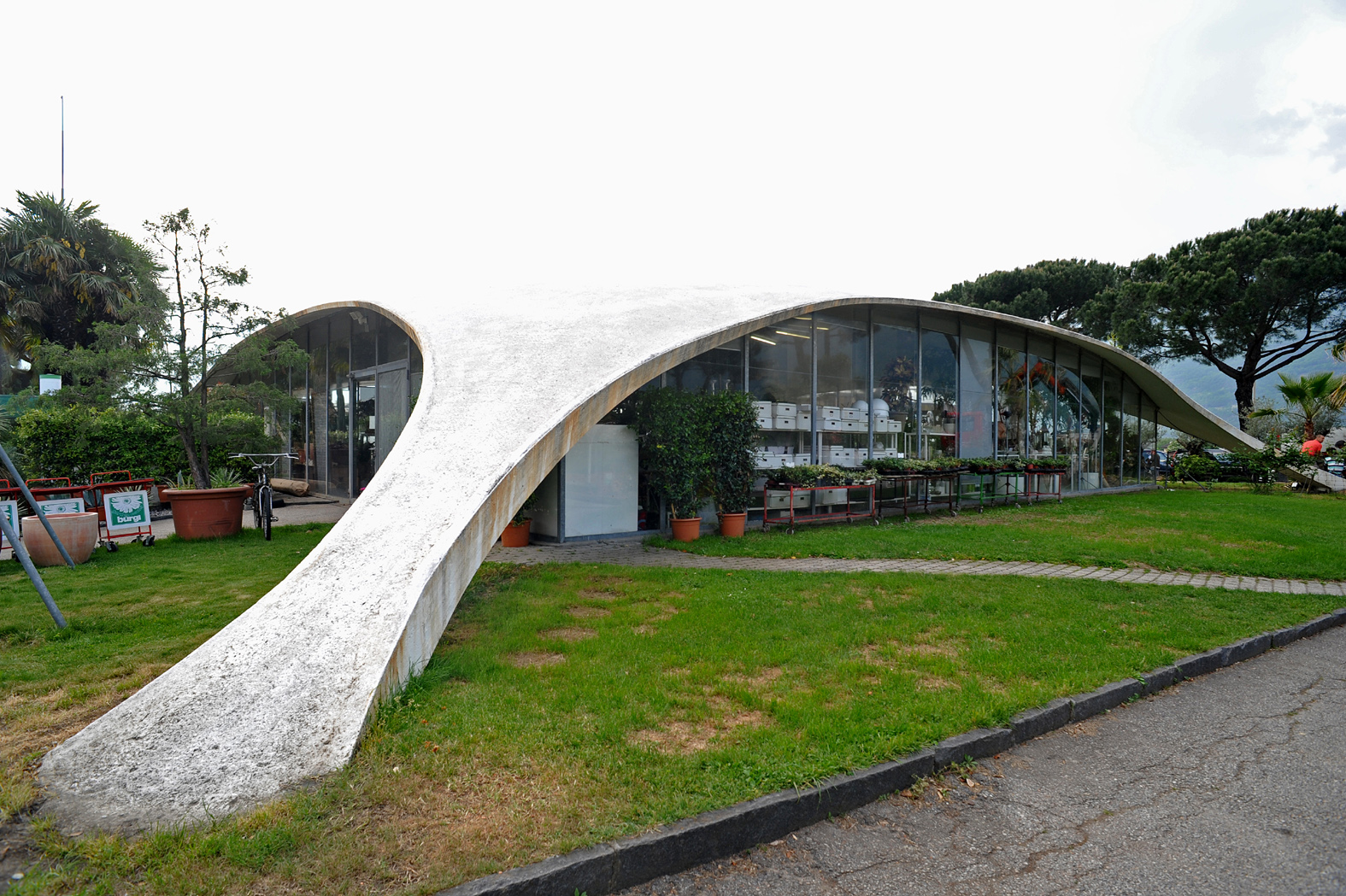 Concrete shell roof (Isler shell) of the Garden Center Bürgi in Camorino, built 1973; Ticino, Switzerland.